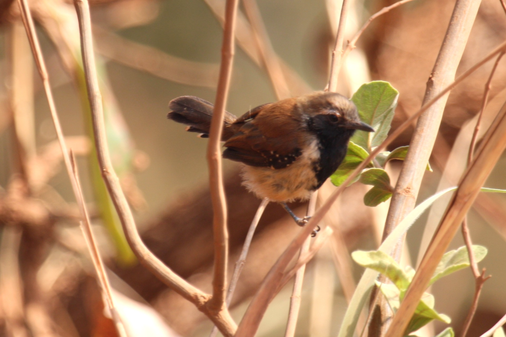 Rusty-backed Antwren, Mato Grosso, Brazil.